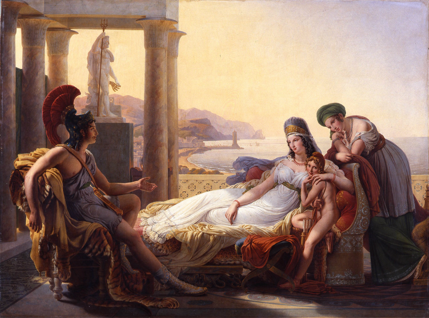 Aeneas tells Dido the misfortunes of the Trojan city. Oil on canvas, 1815.